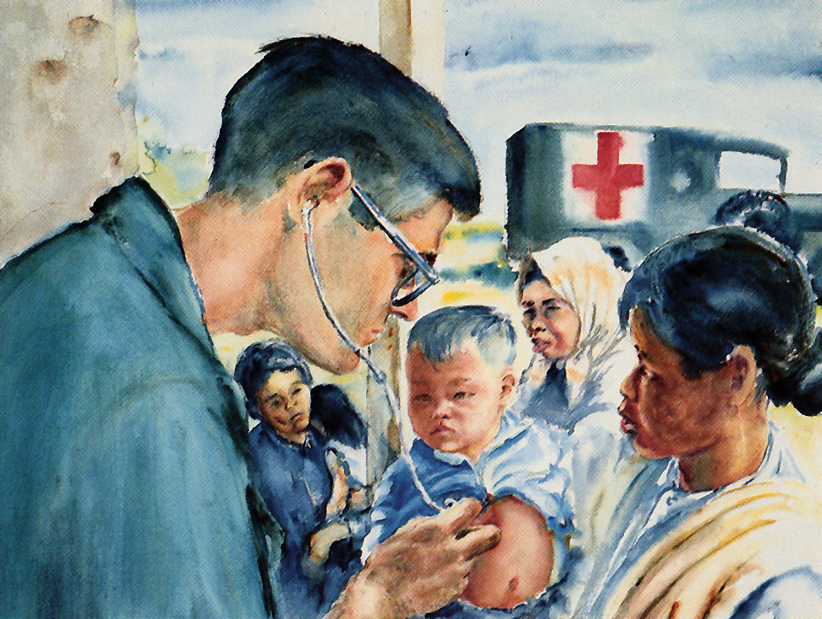 Painting "American Doctor Examines Vietnamese Child", Vietnam, by Samuel E. Alexander, 1967